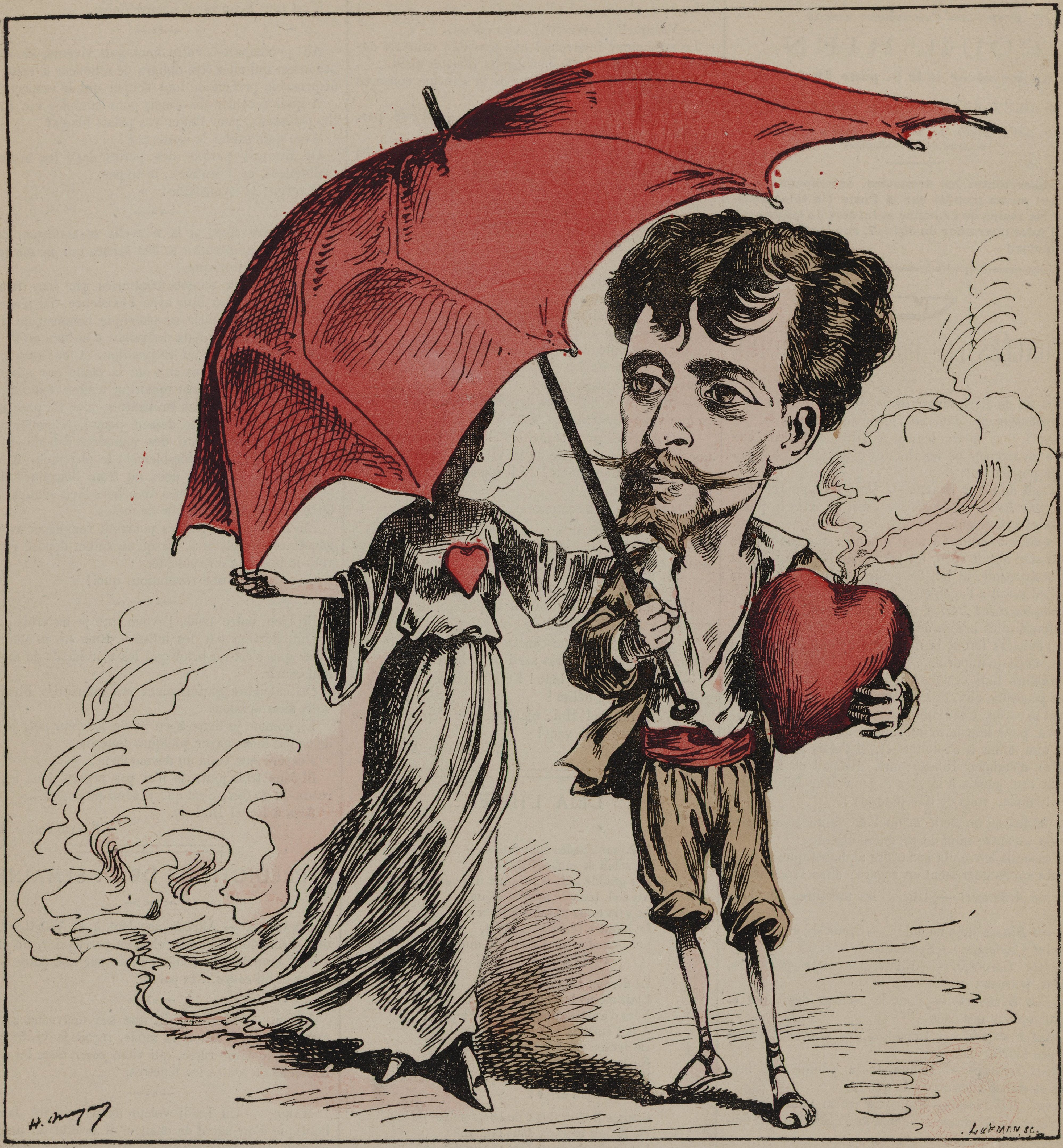 French opera singer Victor Capoul portrayed performing Paul in Victor Massé's 'Paul et Virginie'